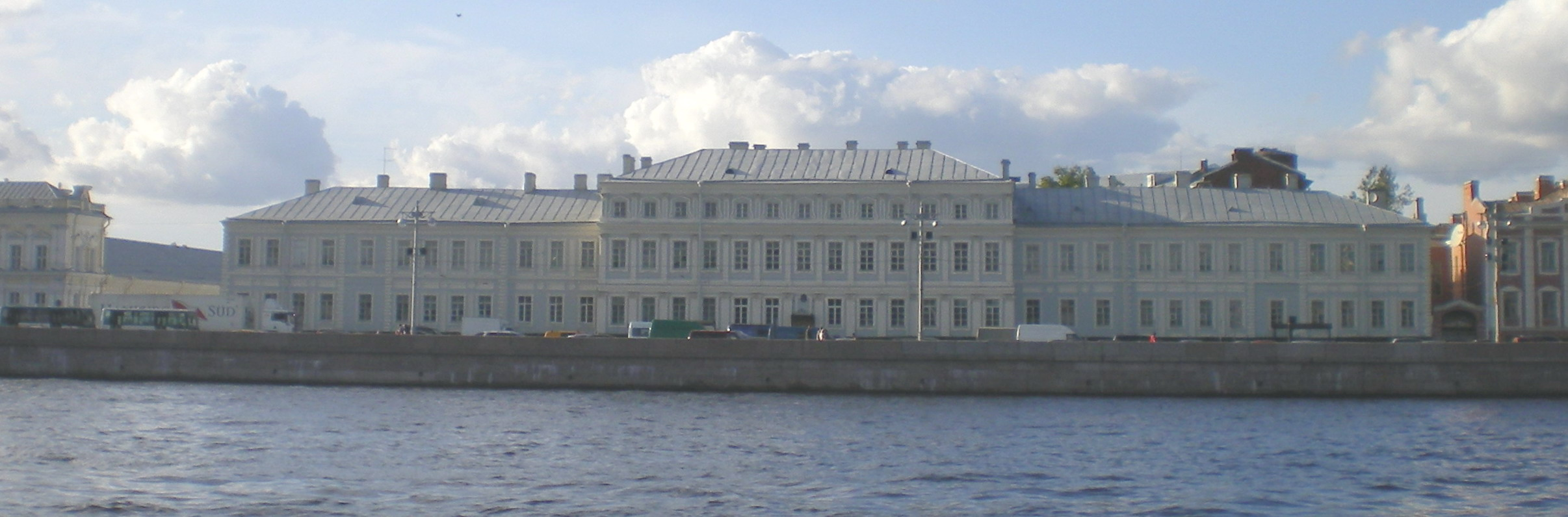 a building of Saint Petersburg State University on Universitetskaya Embankment